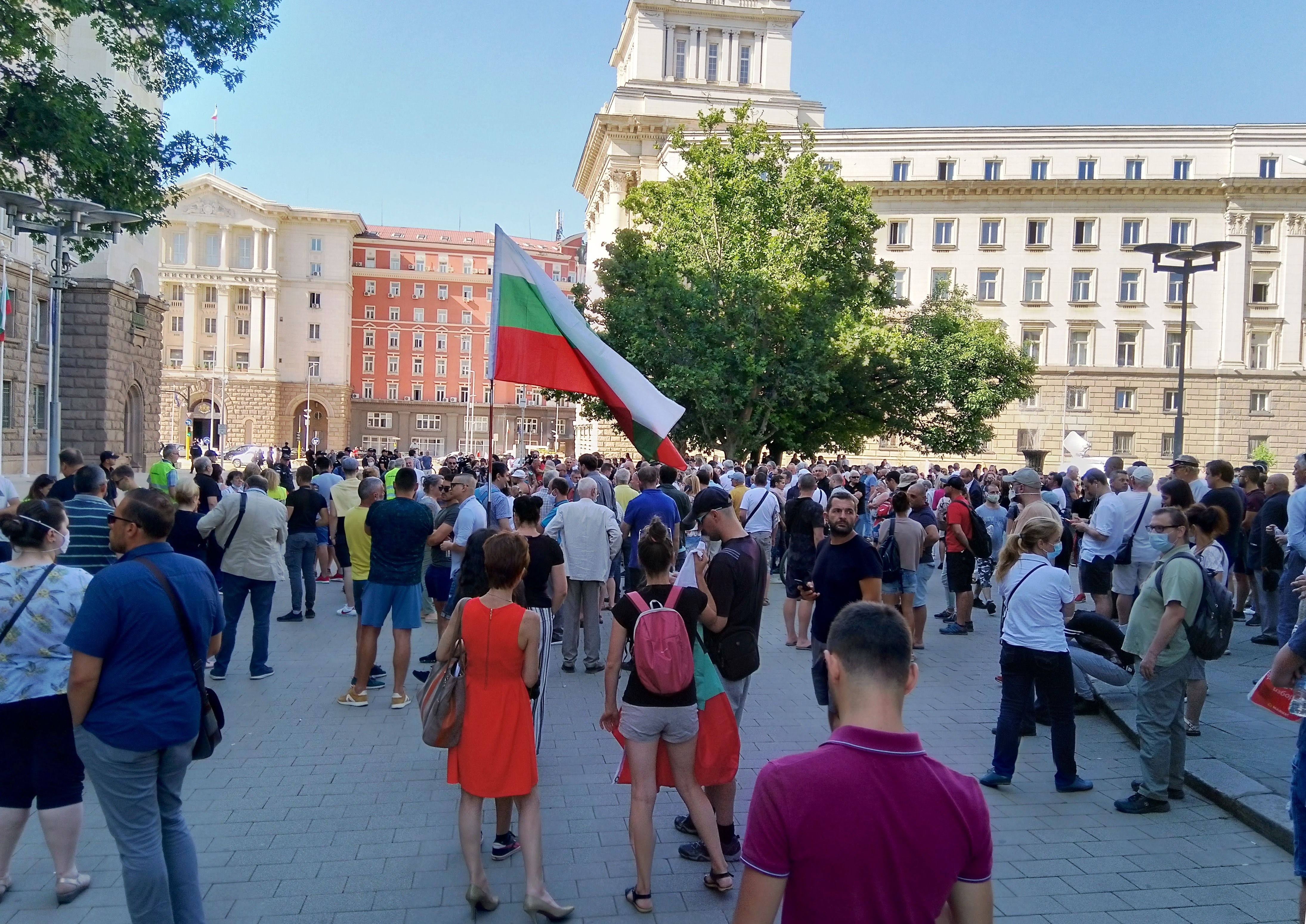 The first day of Bulgarian protests - 9 July 2020